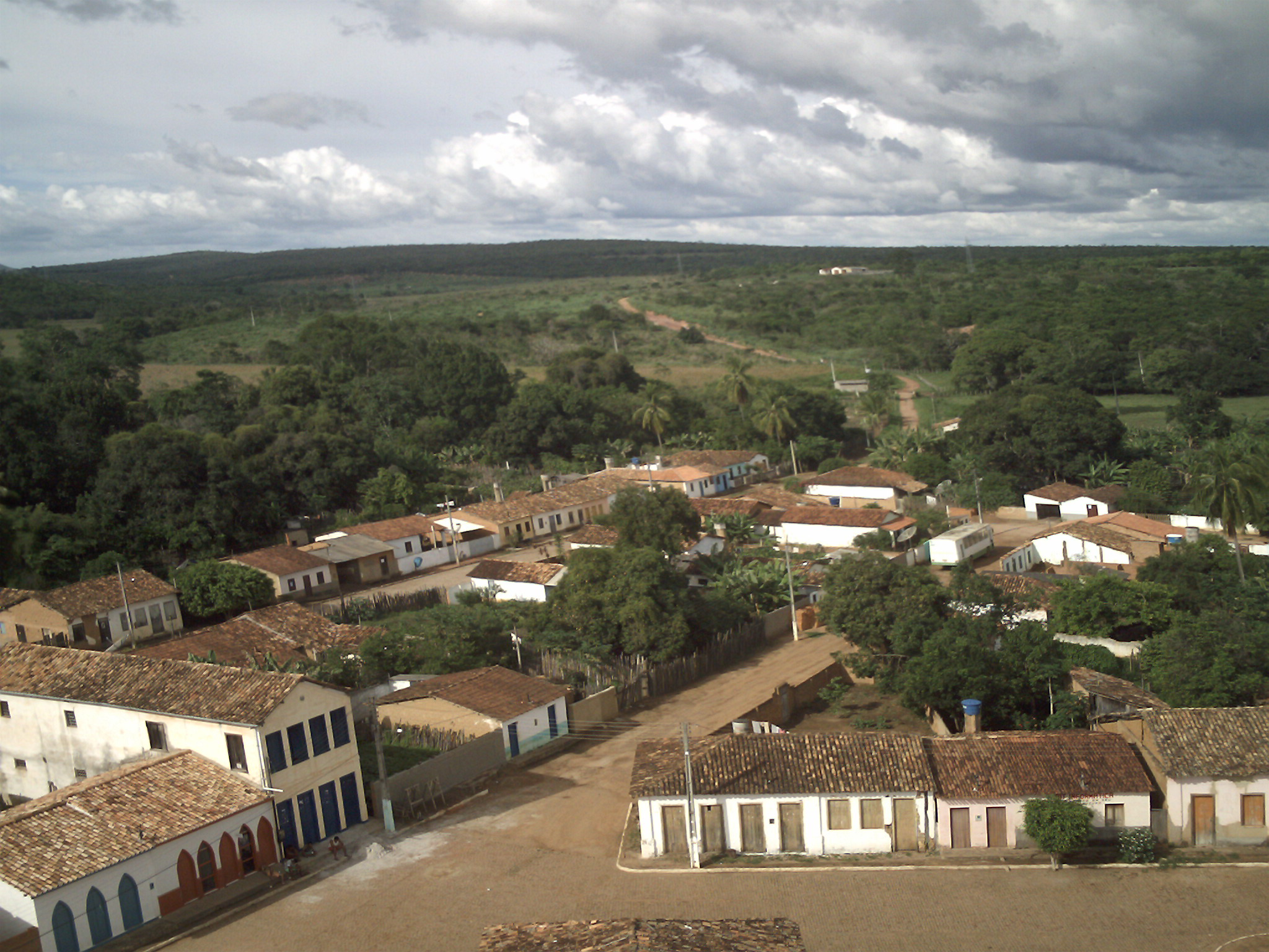 This is a view of Cachoeirinha, a small village in Wagner City, State of Bahia, in Brazil.